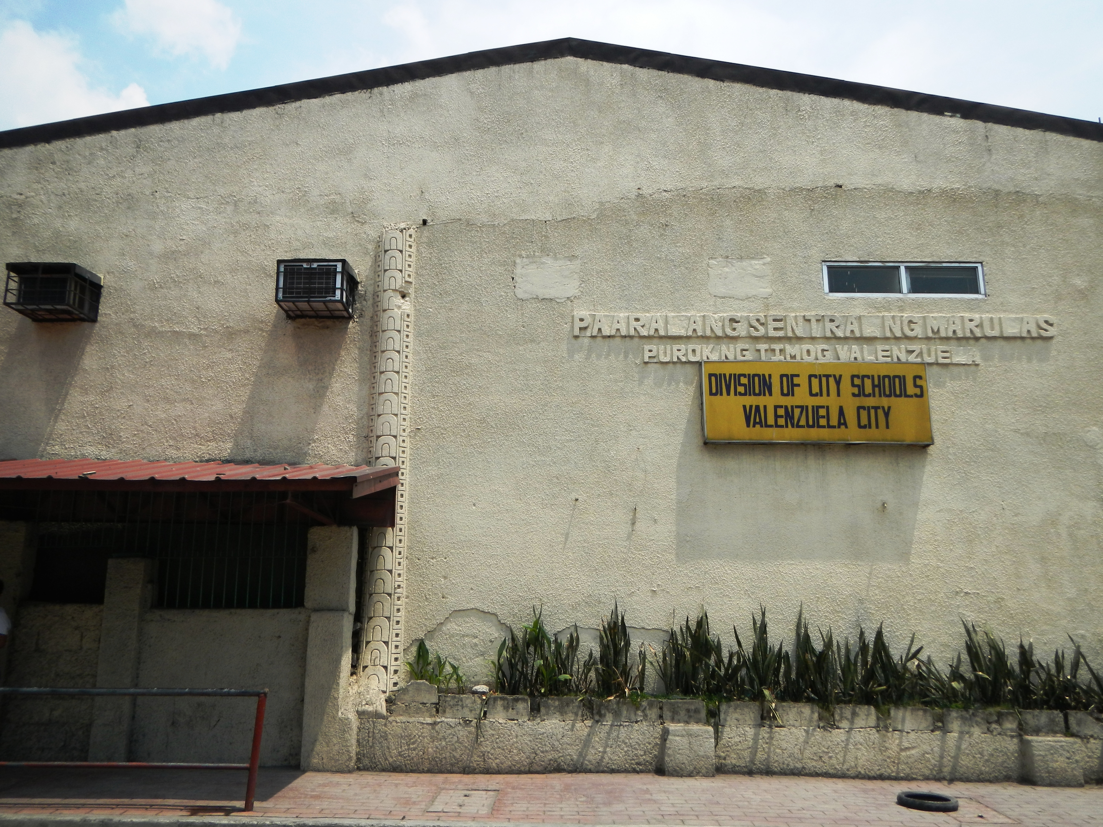 Division of City Schools–Valenzuela Marulas Central School (Division of City Schools–Valenzuela), Marulas Central School Compound, Pio Valenzuela St., Marulas, (Valenzuela, PhilippinesDivision of City Schools–Valenzuela [1]).